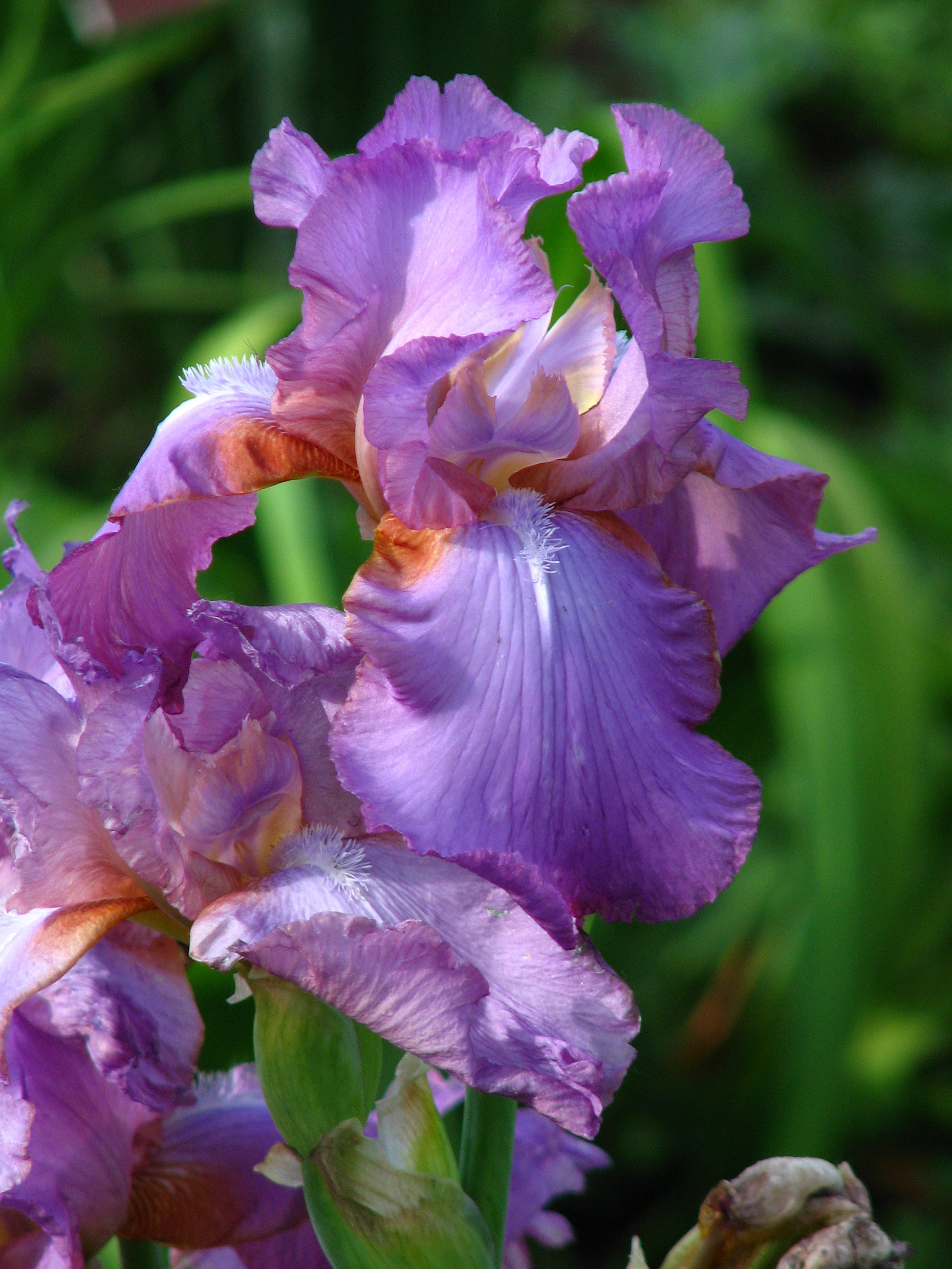 Iris 'Amethyst Flame' (Schreiner, 1957, USA). From the collection of the Botanical Garden of Moscow State University (main area on the Sparrow Hills).